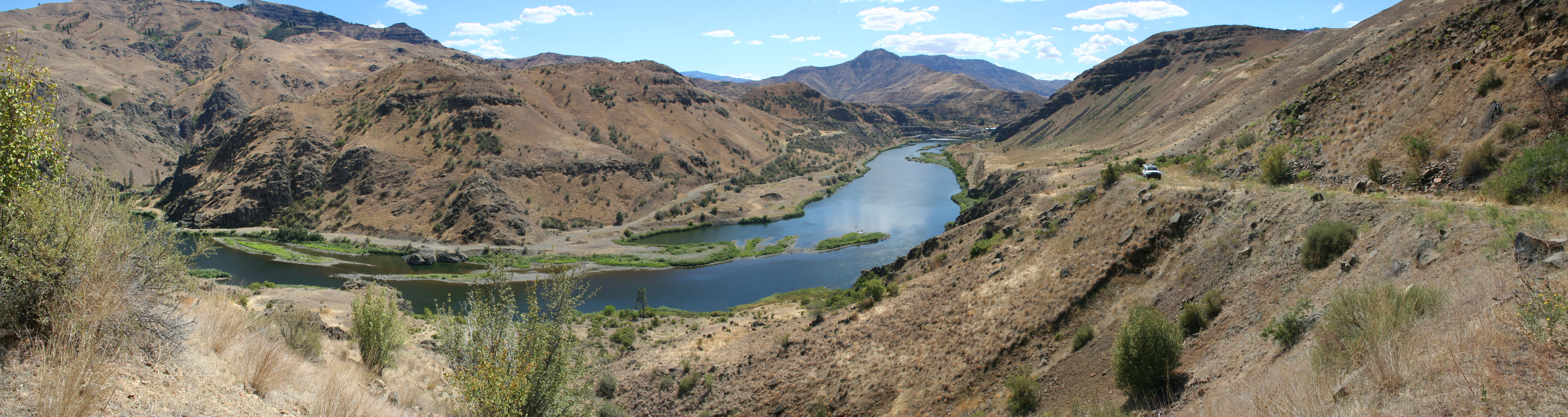 The Snake River near Oxbow, Oregon with the Oxbow Dam in the far background.